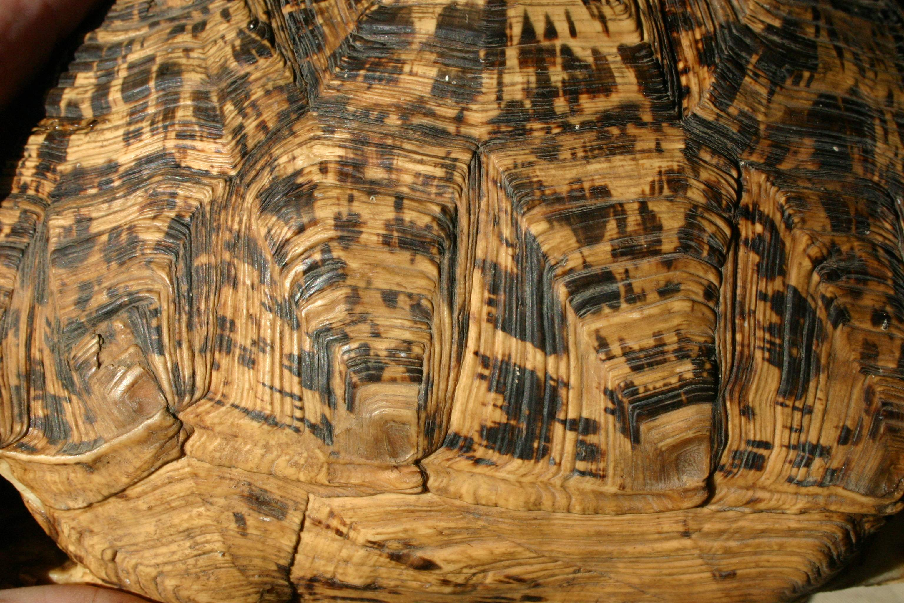 Scutes of Stigmochelys pardalis